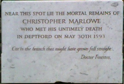 Christopher Marlowe's memorial in the Churchyard at St Nicholas, Deptford. The epithaph "cut is the branch …" is from the epilogue to Marlowe’s play Doctor Faustus.